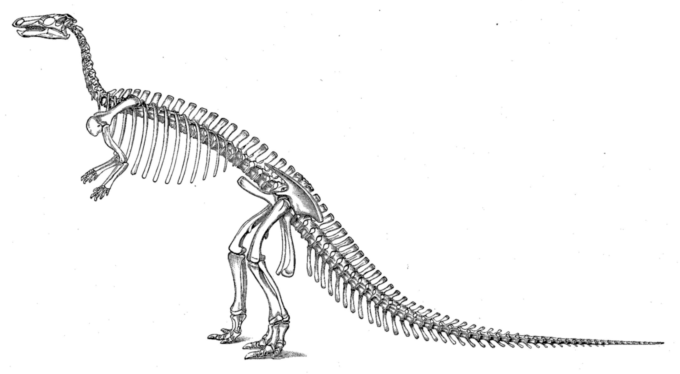 Skeletal drawing of Camptosaurus, with skull based on remains now referred to Theiophytalia.